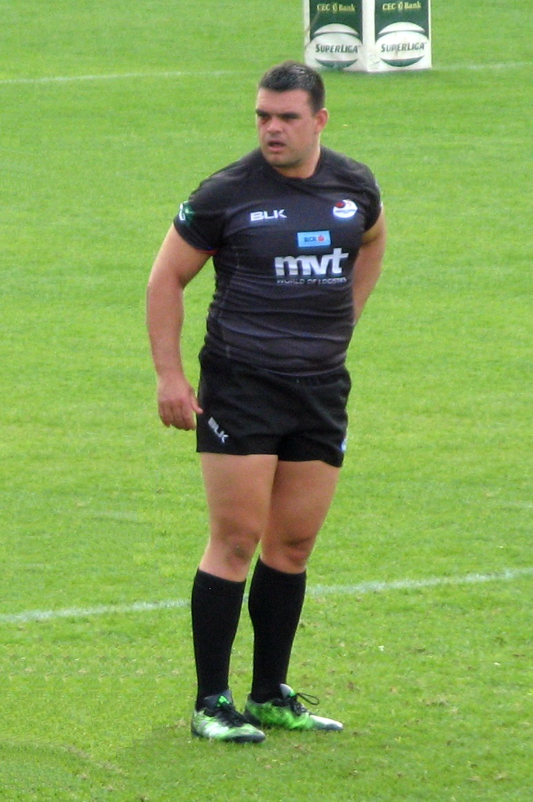 South African rugby union football player, Pieter Stemmet, from Timișoara Saracens rugby club seen playing during a match against CSA Steaua București in Romanian Rugby SuperLiga in April 2017